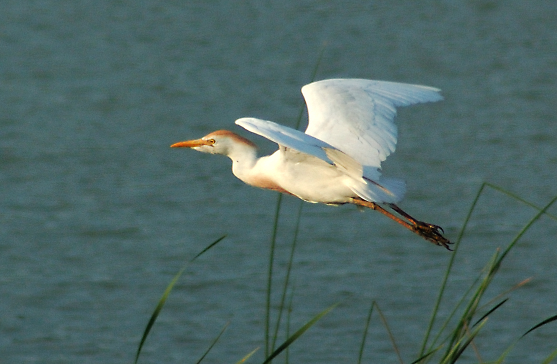 Cattle Egret (Bubulcus ibis). Photo taken in Minnesota in the spring.